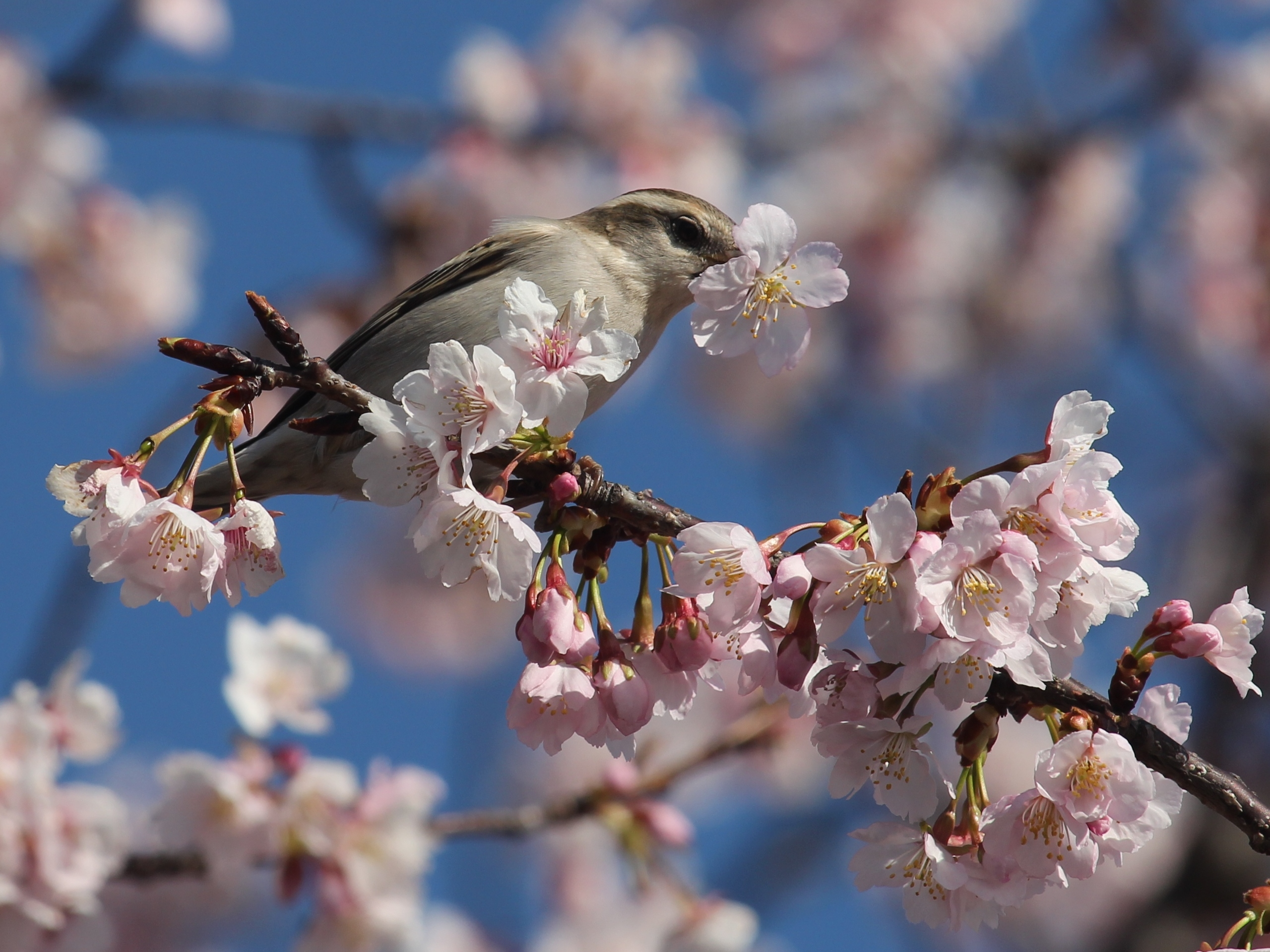 Russet Sparrow(Passer rutilans), female on Sakura(Ōkan-Zakura), in Aichi prefecture, Japan.